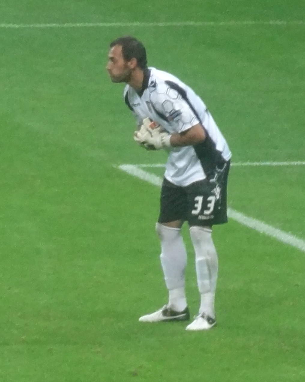 Beto @ GS